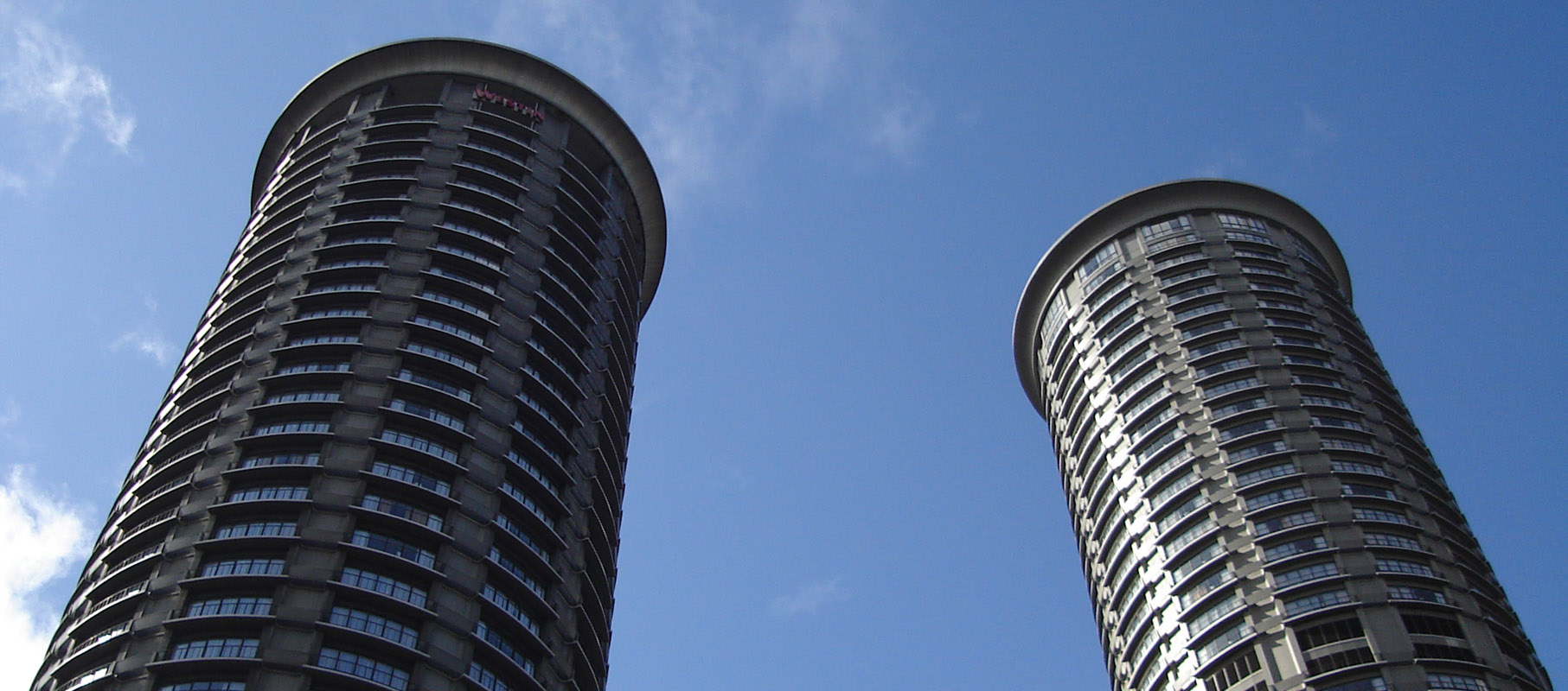 The Westin Hotel in Seattle, WA.